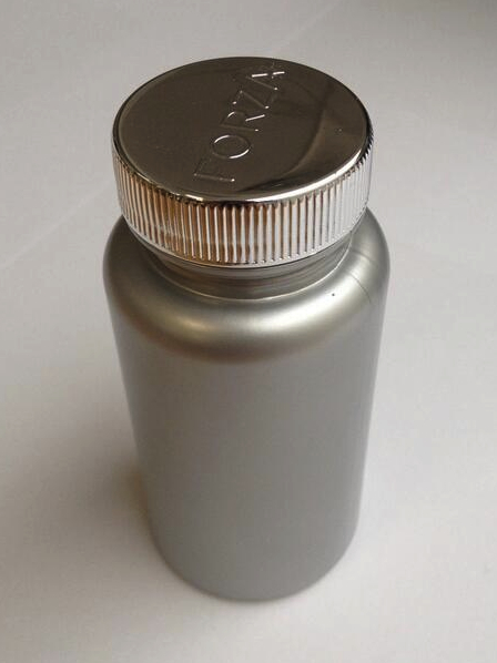 Forza Supplements